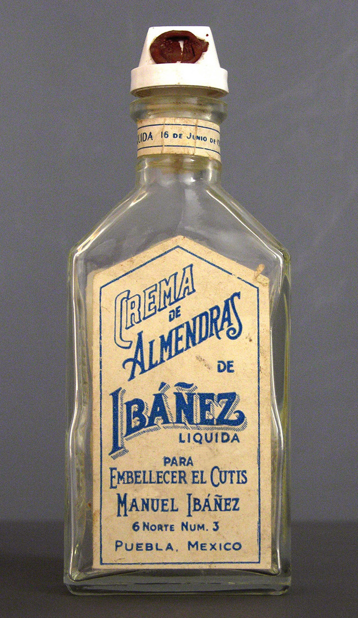 Ibañez Cream of Almond Glass bottle with paper label Beginning of the 20th century